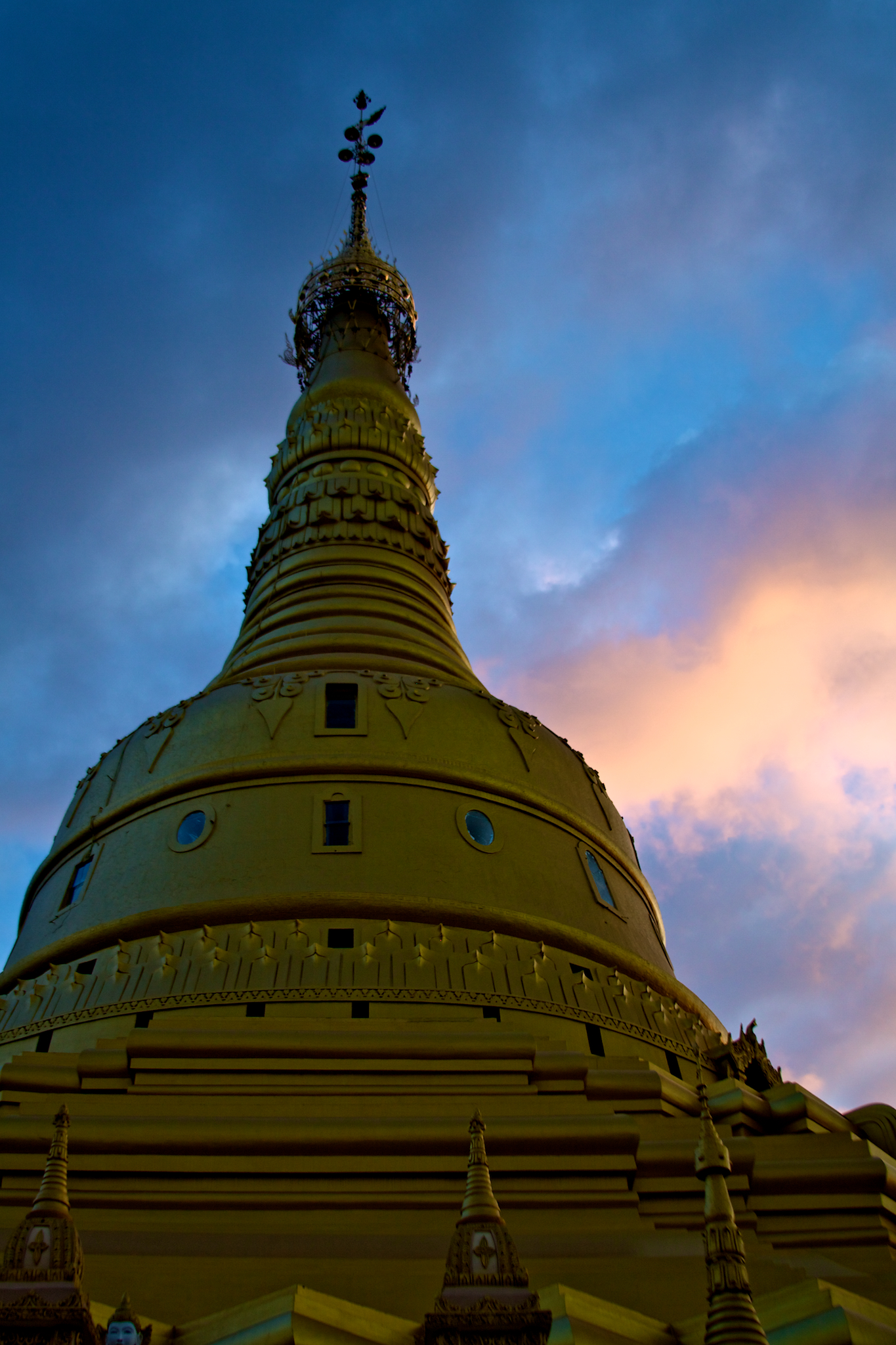 Lower on the hill, but actually taller than the standing Buddha at 430 ft above the surrounding jungle, the Aung Setkya Paya is a dramatic part of the Bodhi Tataung complex. Hollow, you can follow corridors inside and climb up to the platform level below the stupa proper.